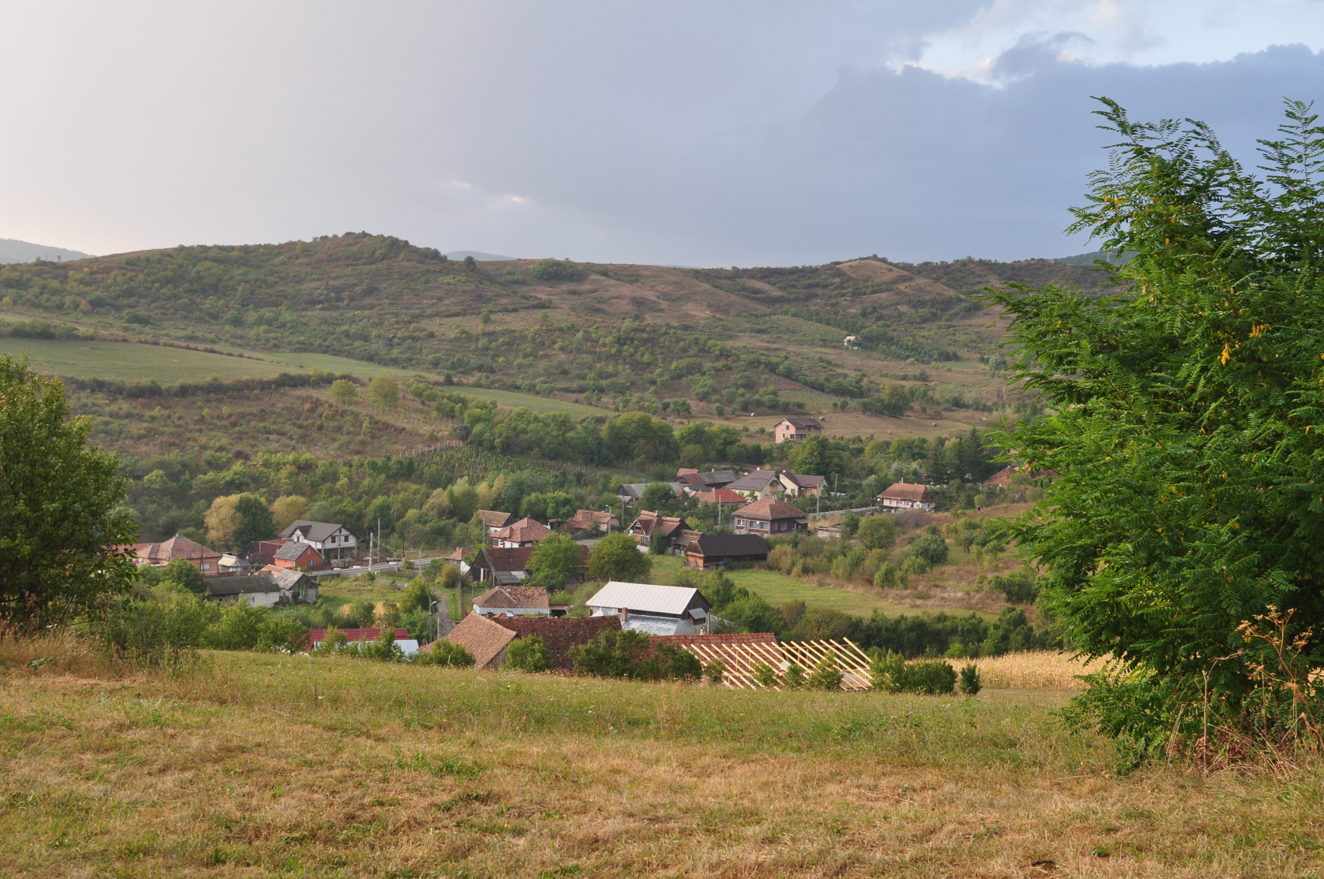 Herina, Bistrița-Năsăud County, Romania